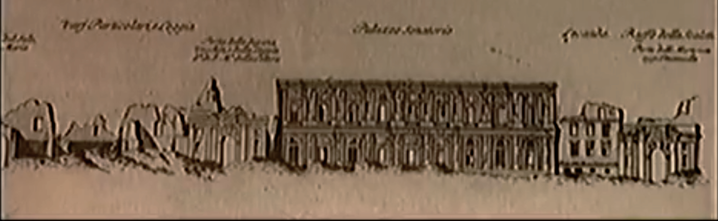 Incisione del sec. XVIII